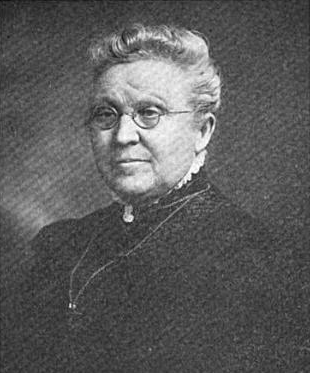 A photo of the Reverend Mary C. Collins, missionary to the Sioux in South Dakota.